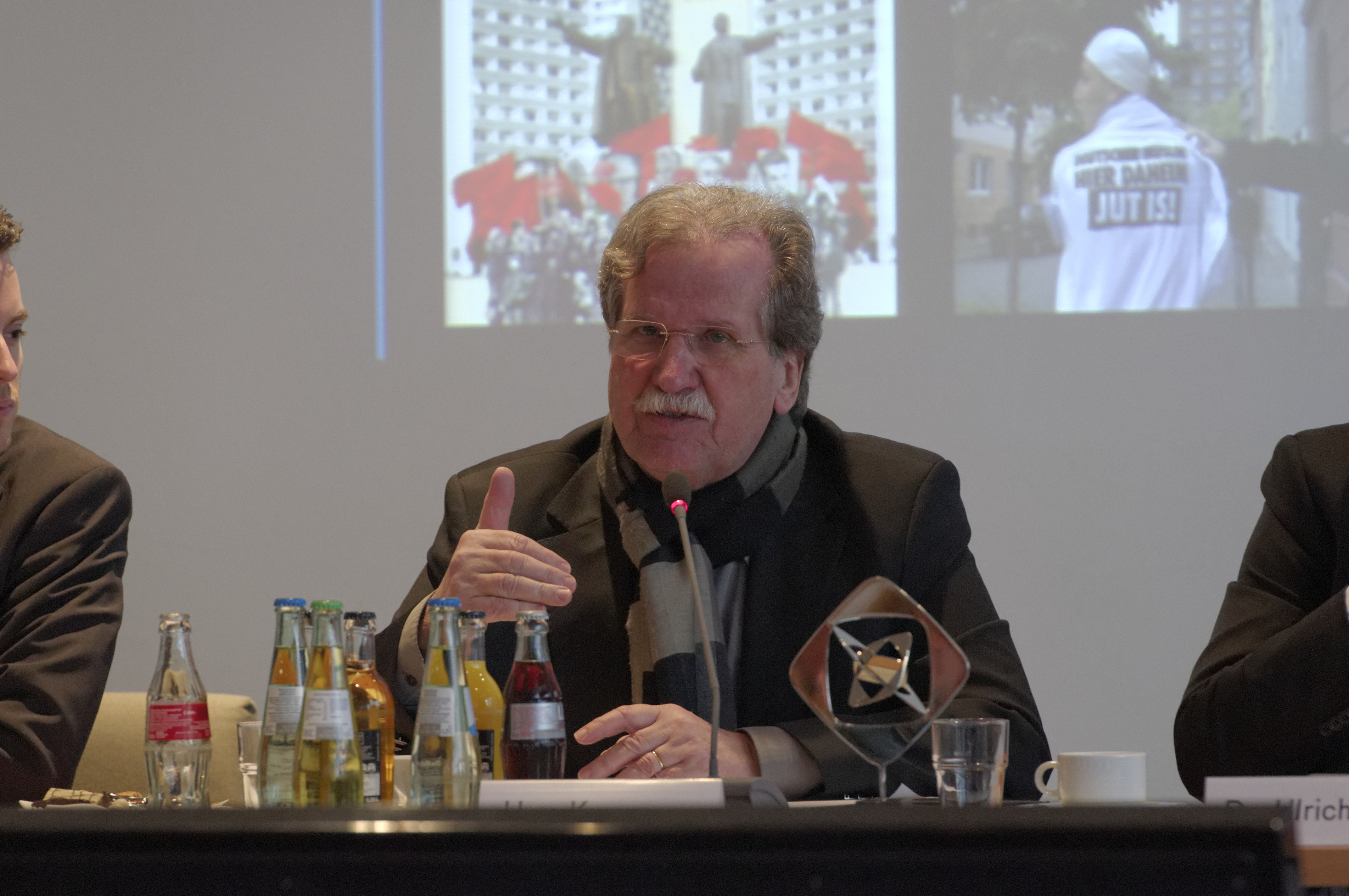 Uwe Kammann at the announcement press conference of the winners of the Grimme prize 2013